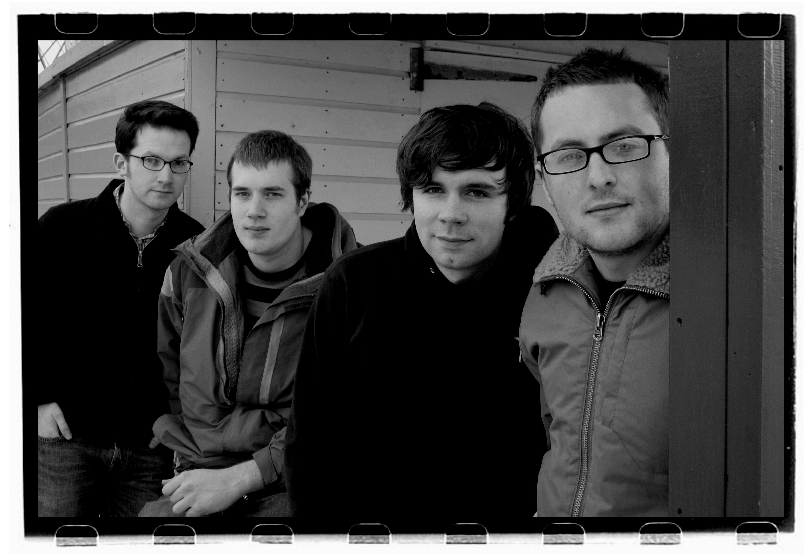 Scottish independent rock band Stapleton, circa 2006.